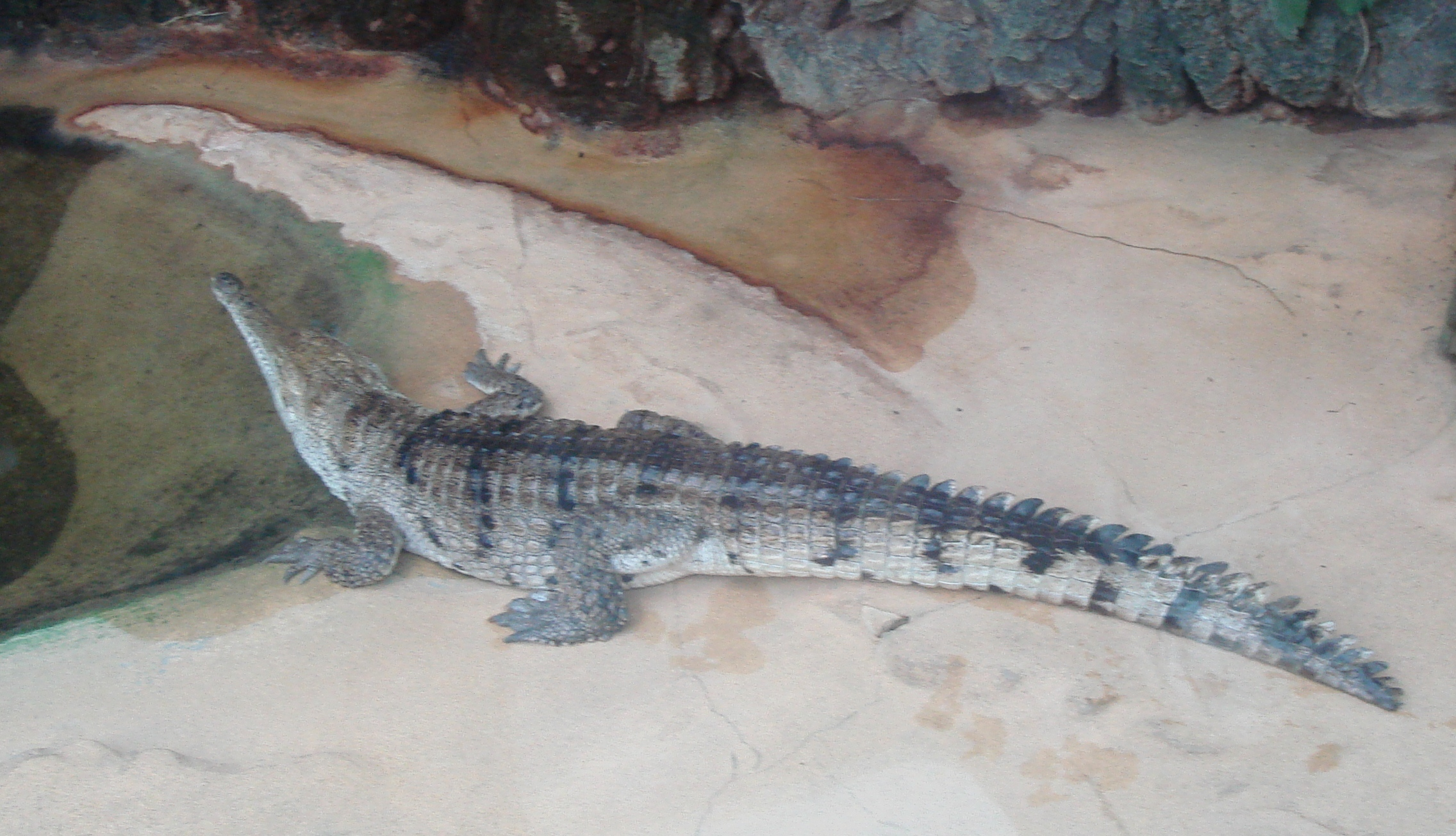 Photo of an Australian freshwater crocodile (Crocodylus johnsoni) taken by ElinorD at Frankfurt Zoo on 9 April 2007